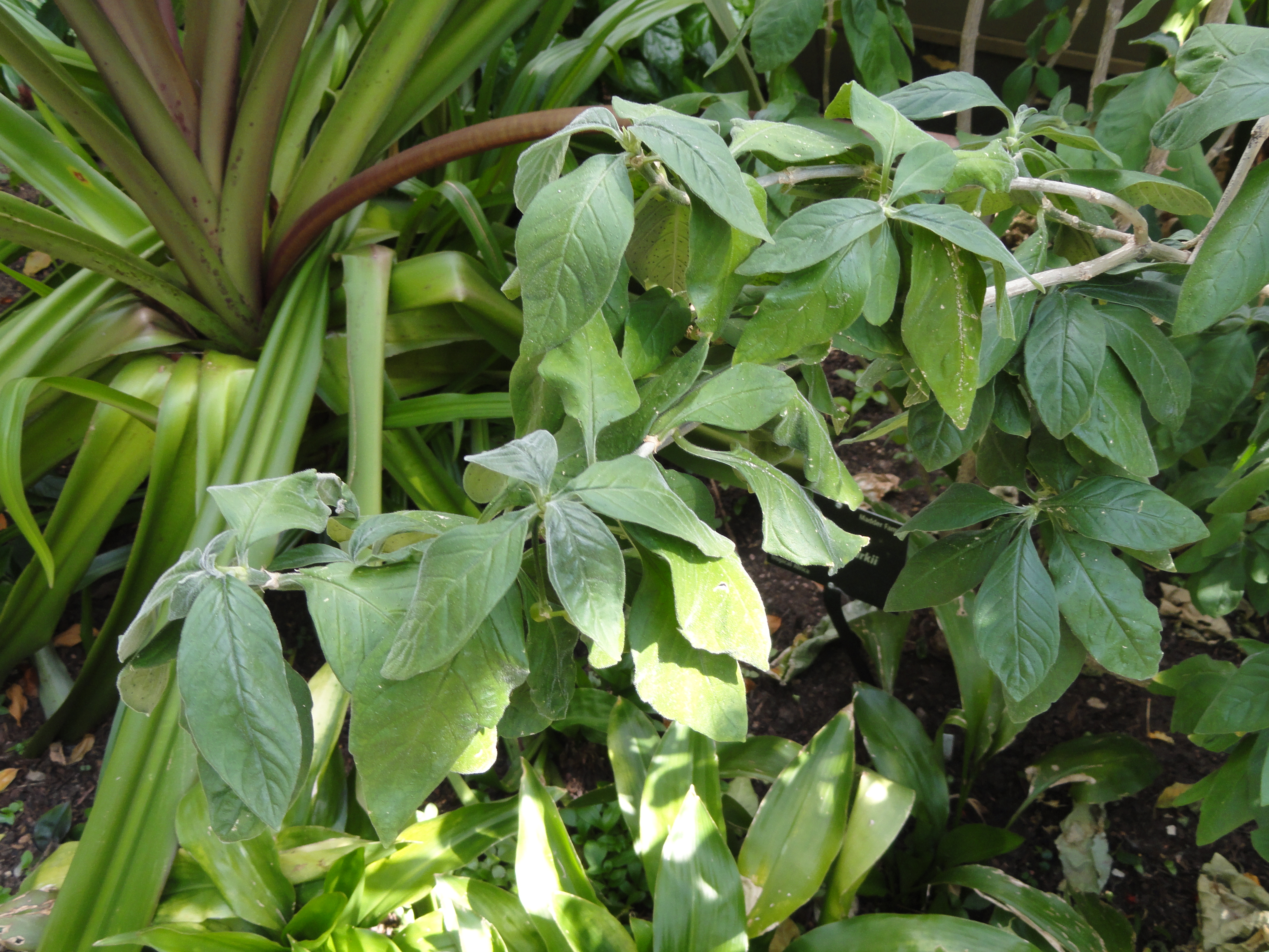 Psychotria kirkii. Botanical specimen in the Denver Botanic Gardens, 1007 York Street, Denver, Colorado, USA.